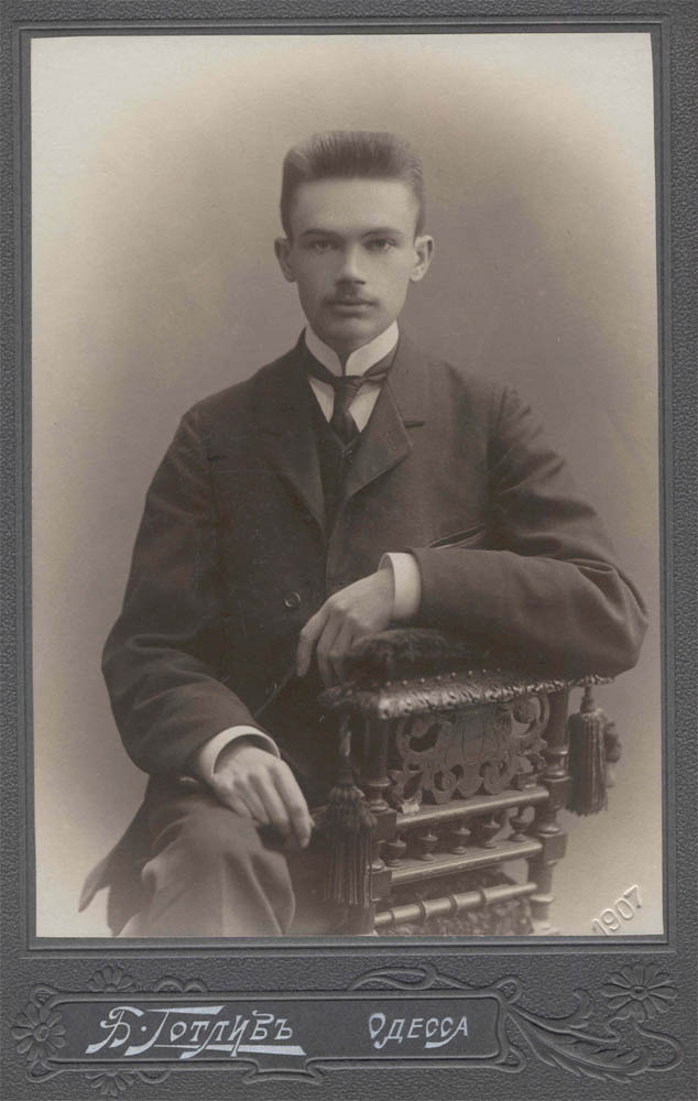 Alexander Bogomolets, 1907